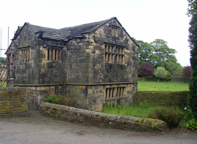 Kirklees Priory Gatehouse, Clifton. Not the building from which Robin Hood is supposed to have shot the arrow to mark where he wished to be buried, although possibly on the same site. The part seen here is a late 16C or early 17C addition to the early 16C building (see other photo for this). It might have been the farm manager's house. The transomed window on the first floor is the only one of this type amongst the farm buildings.